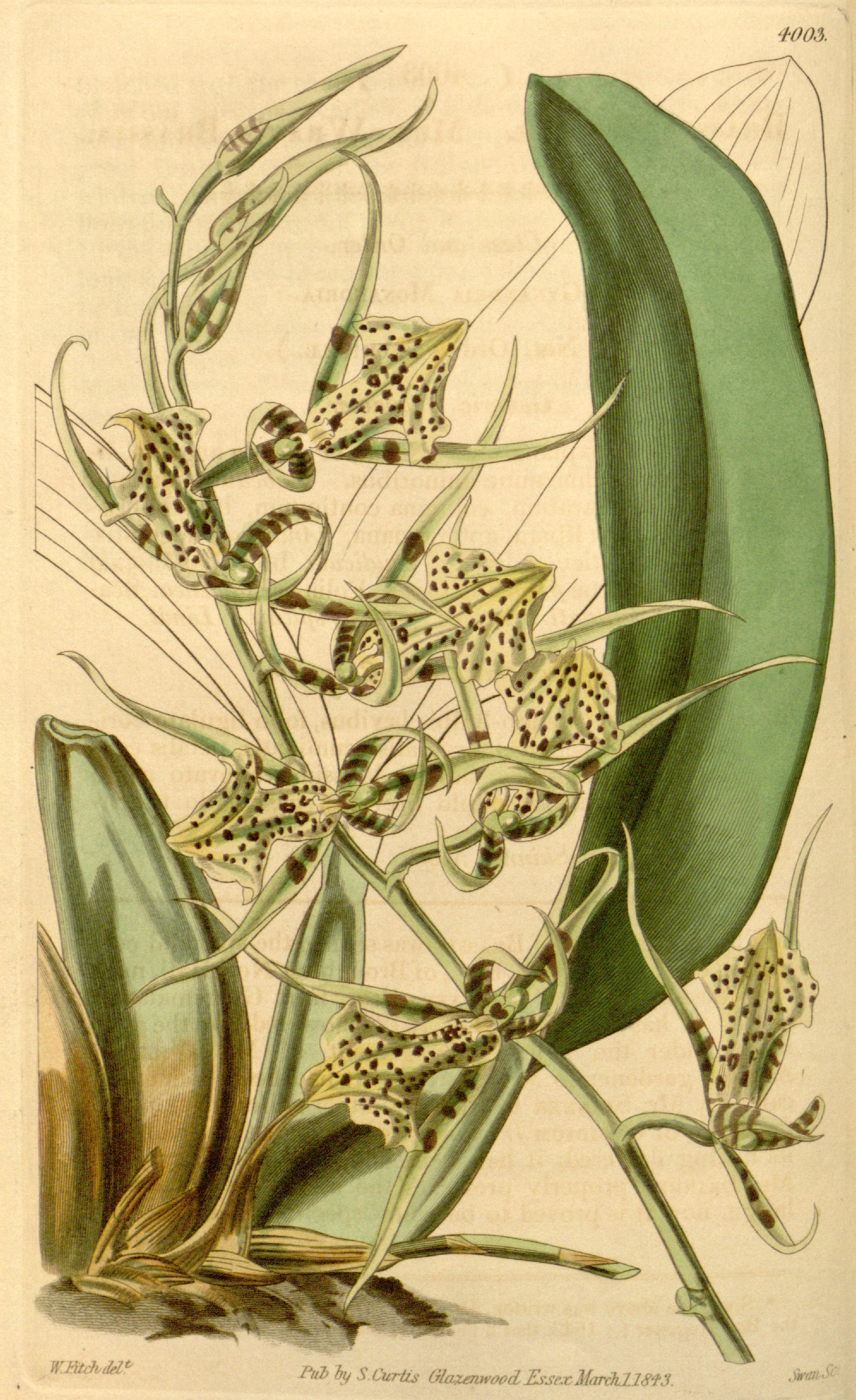 Illustration of Brassia maculata (as syn. Brassia wrayae)